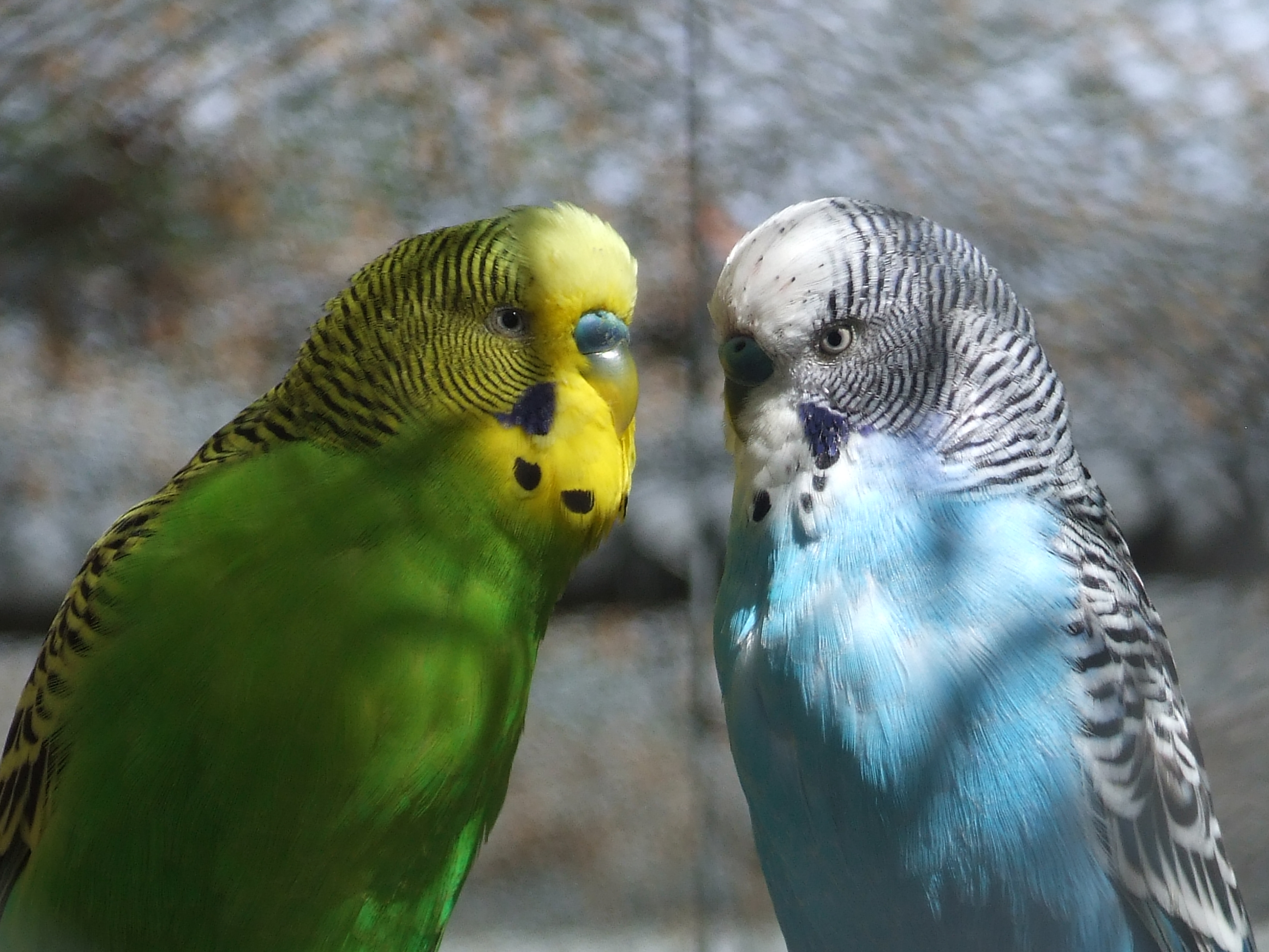 Two Domesticated budgerigars at the Temuka Aviary, New Zealand.